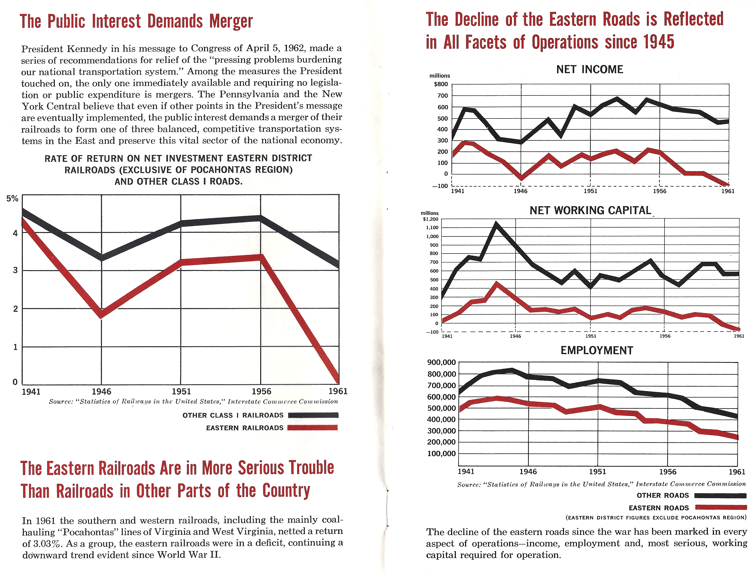 Pages 1-2 from publicity booklet produced by the Penn-Central Merger Information Committee to inform the public on issues concerning their proposed merger. This pages shows various statistics showing Eastern railroads in decline.